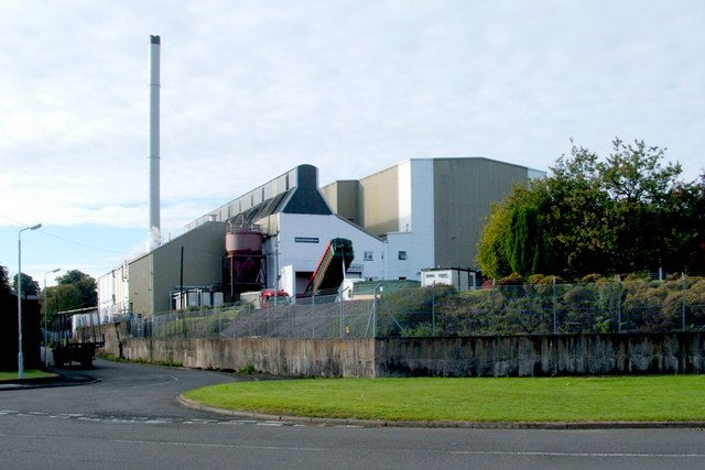 Loch Lomond Distillery